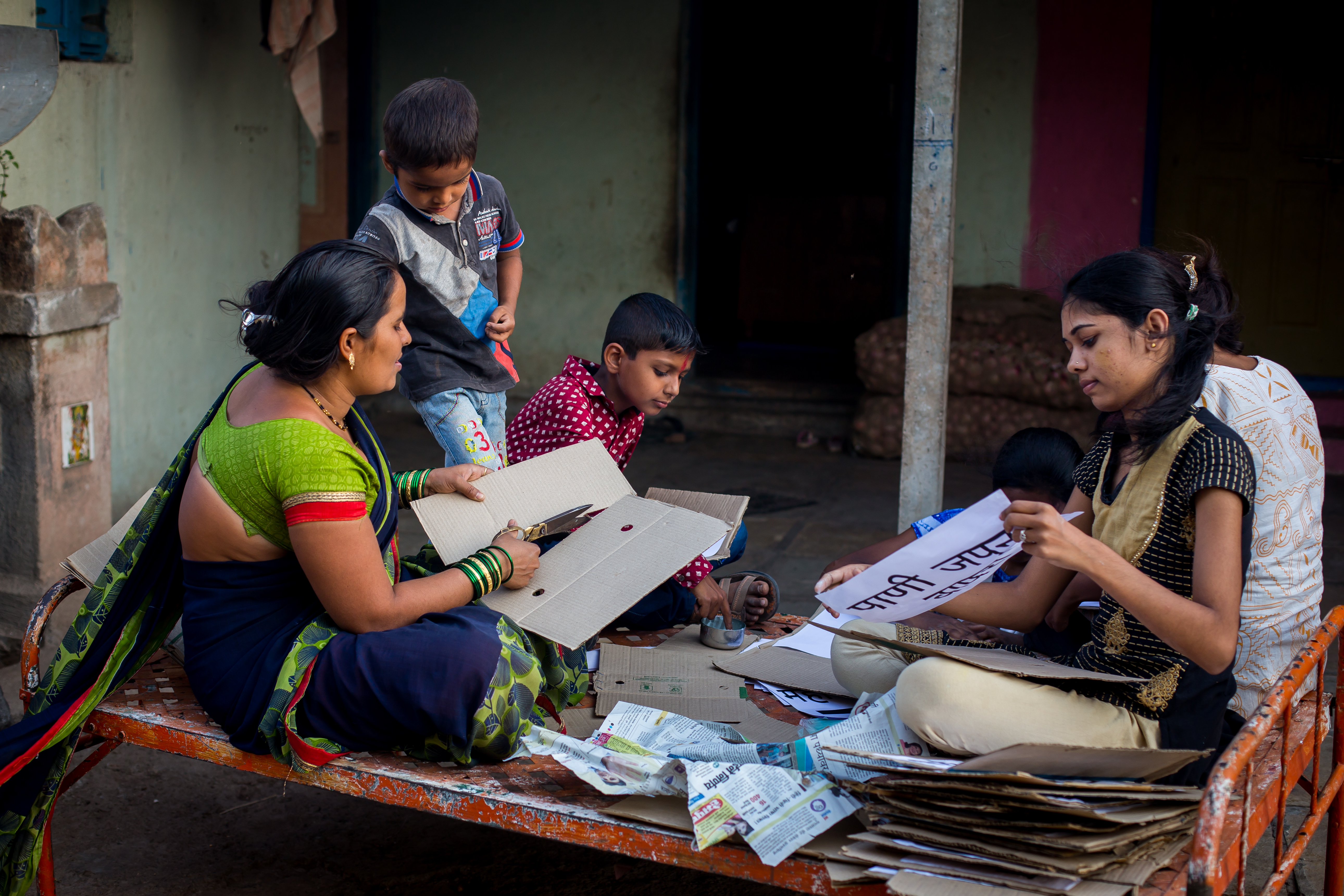 Villagers can be seen preparing for the upcoming Water Cup competition in 2018